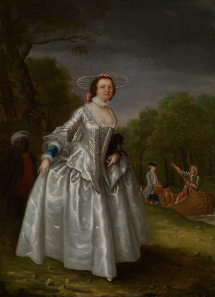 Kitty Clive as Mrs Riot by Peter Van Bleeck in the Garrick Club